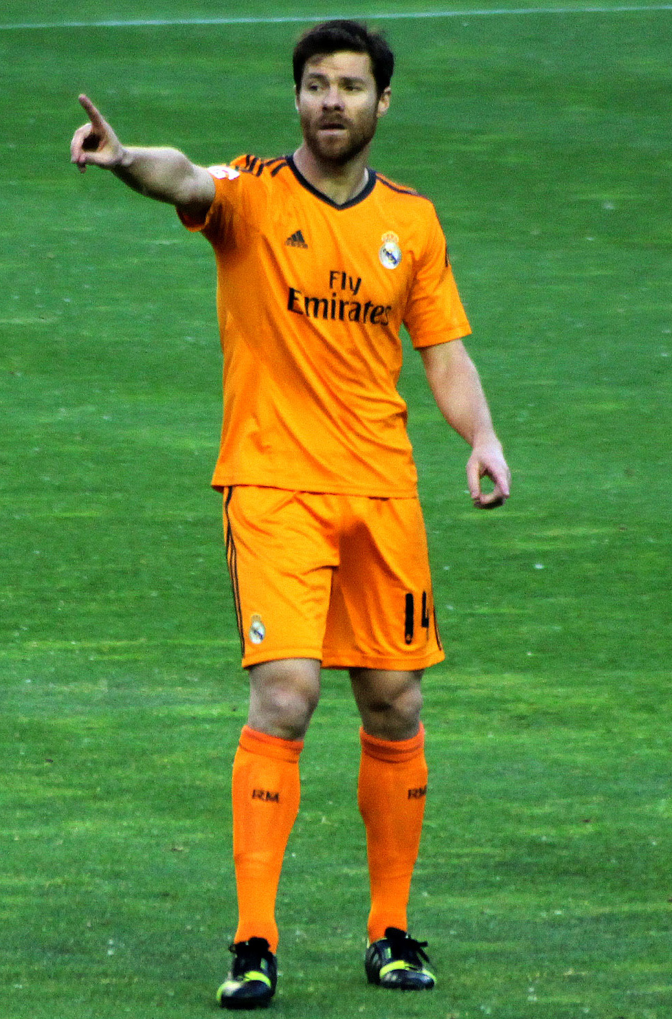 Xabi Alonso, Spanish footballer in the Real Valladolid vs Real Madrid match of the 2014 La Liga.